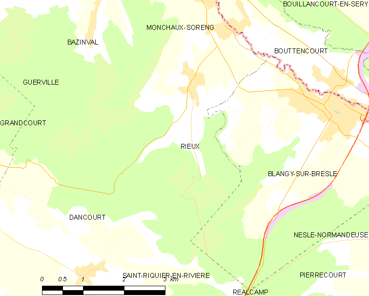 Map of French municipality Rieux